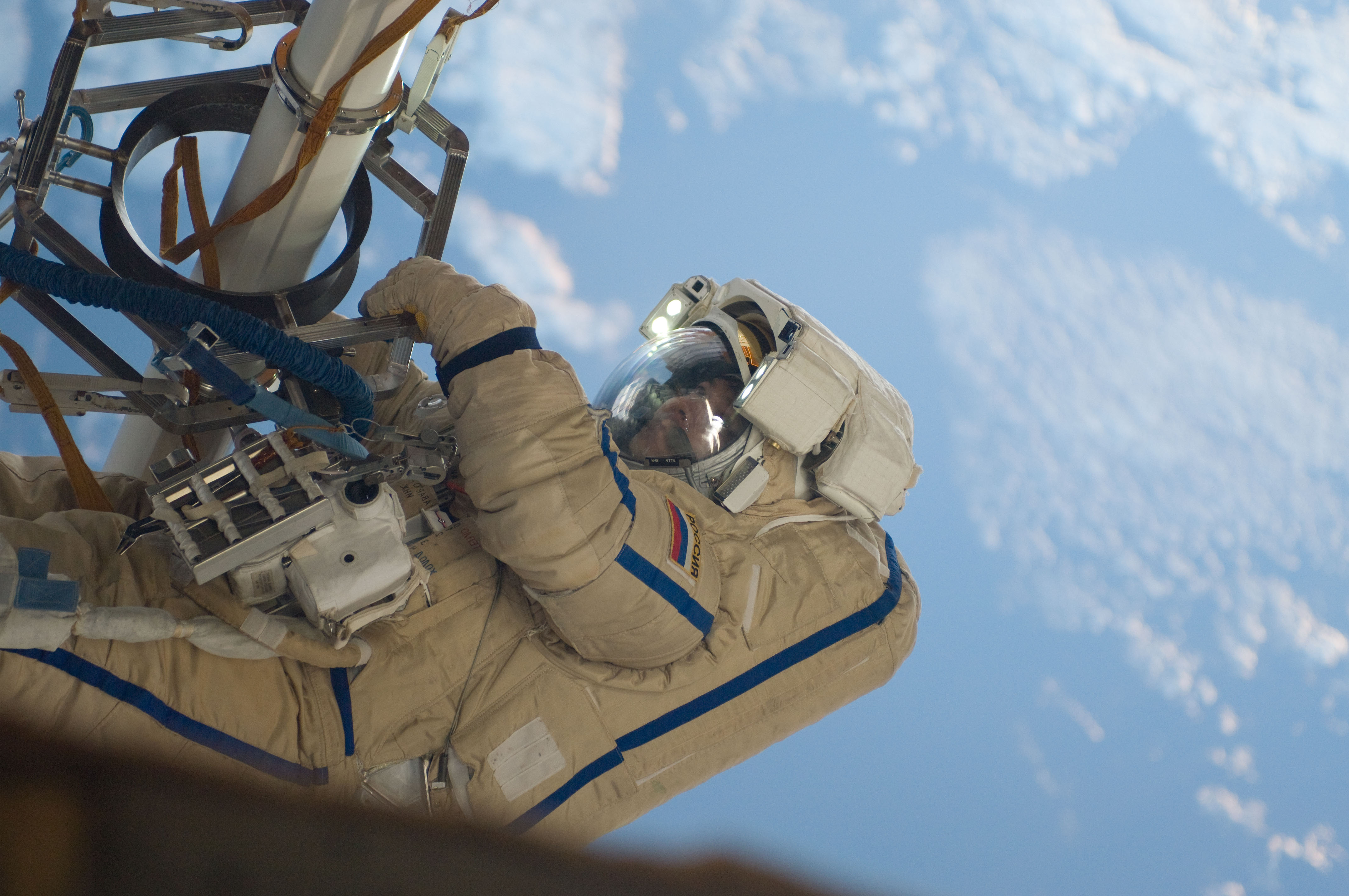 Russian cosmonaut Oleg Kononenko, Expedition 30 flight engineer, participates in a session of extravehicular activity (EVA) to continue outfitting the International Space Station. During the six-hour, 15-minute spacewalk, Kononenko and Russian cosmonaut Anton Shkaplerov (out of frame), flight engineer, moved the Strela-1 crane from the Pirs Docking Compartment to begin preparing the Pirs for its replacement next year with a new laboratory and docking module. The duo used another boom, the Strela-2, to move the hand-operated crane to the Poisk module for future assembly and maintenance work. Both telescoping booms extend like fishing rods and are used to move massive components outside the station. On the exterior of the Poisk Mini-Research Module 2 (MRM2), they also installed the Vinoslivost Materials Sample Experiment, which will investigate the influence of space on the mechanical properties of the materials. The spacewalkers also collected a test sample from underneath the insulation on the Zvezda Service Module to search for any signs of living organisms. Both spacewalkers wore Russian Orlan spacesuits bearing blue stripes and equipped with NASA helmet cameras.